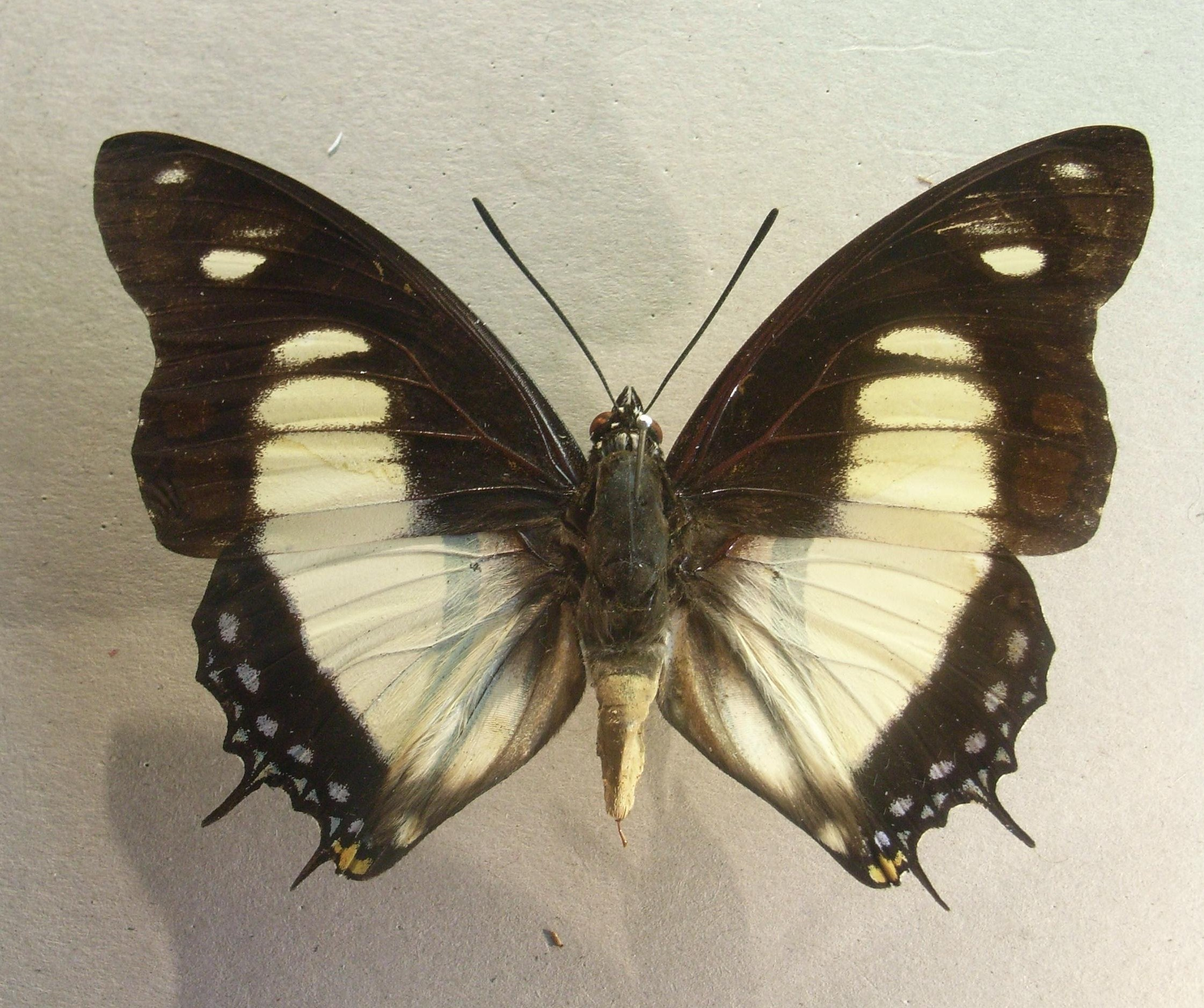 Charaxes nobilis:Charaxinae:Nymphalidae Madagascar